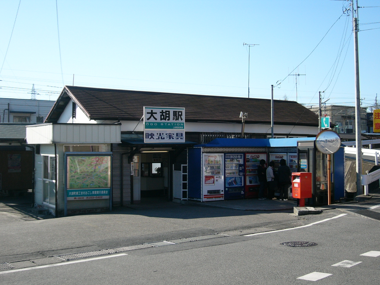 Ogo Station